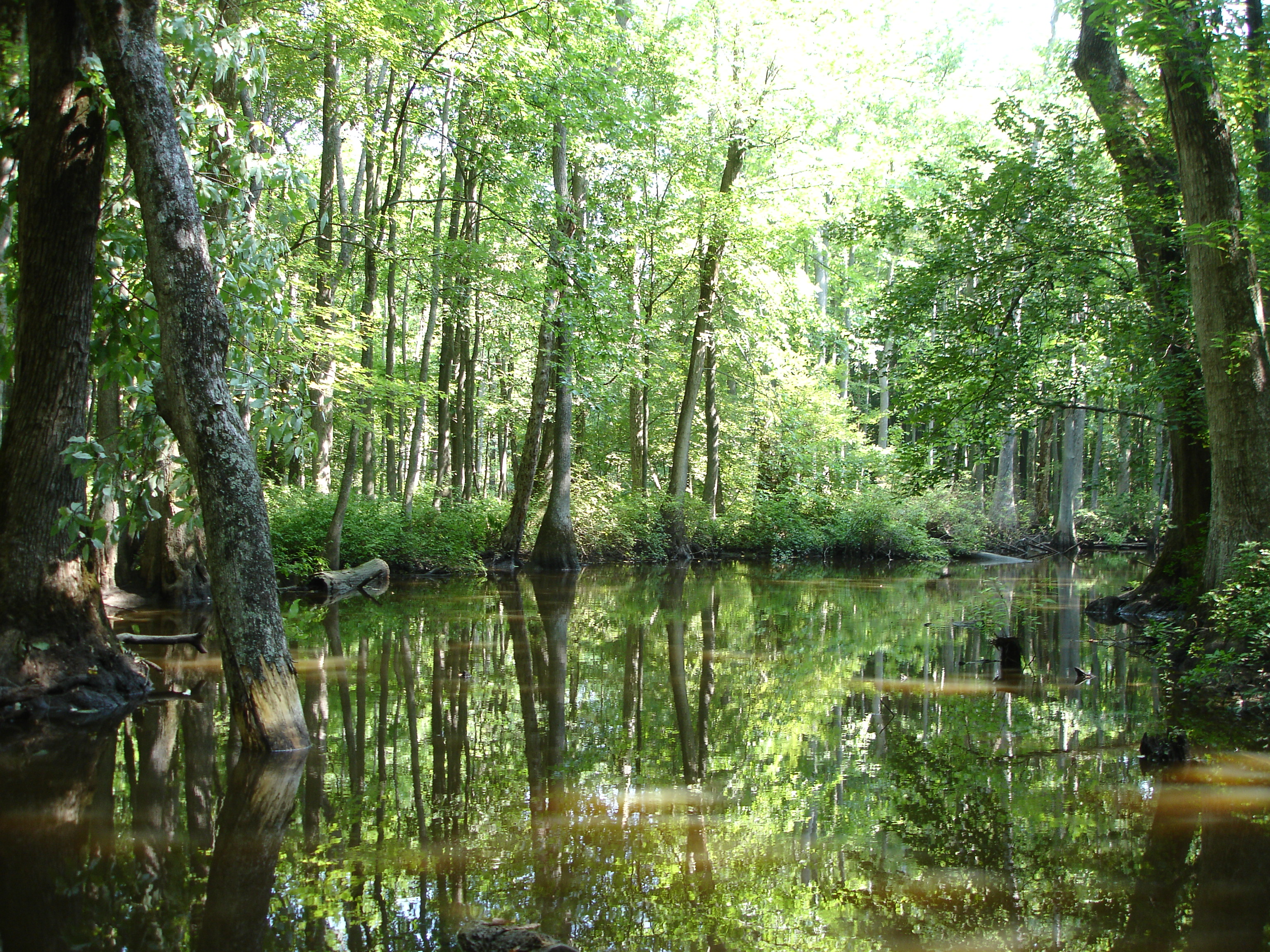 Cache River in Woodruff County, Arkansas as seen by canoe